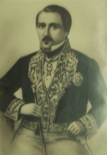 Miguel Barbachano y Tarrazo, 5 time governor of Yucatán, Mexico. Great grandfather of noted photographer Edgar de Evia.